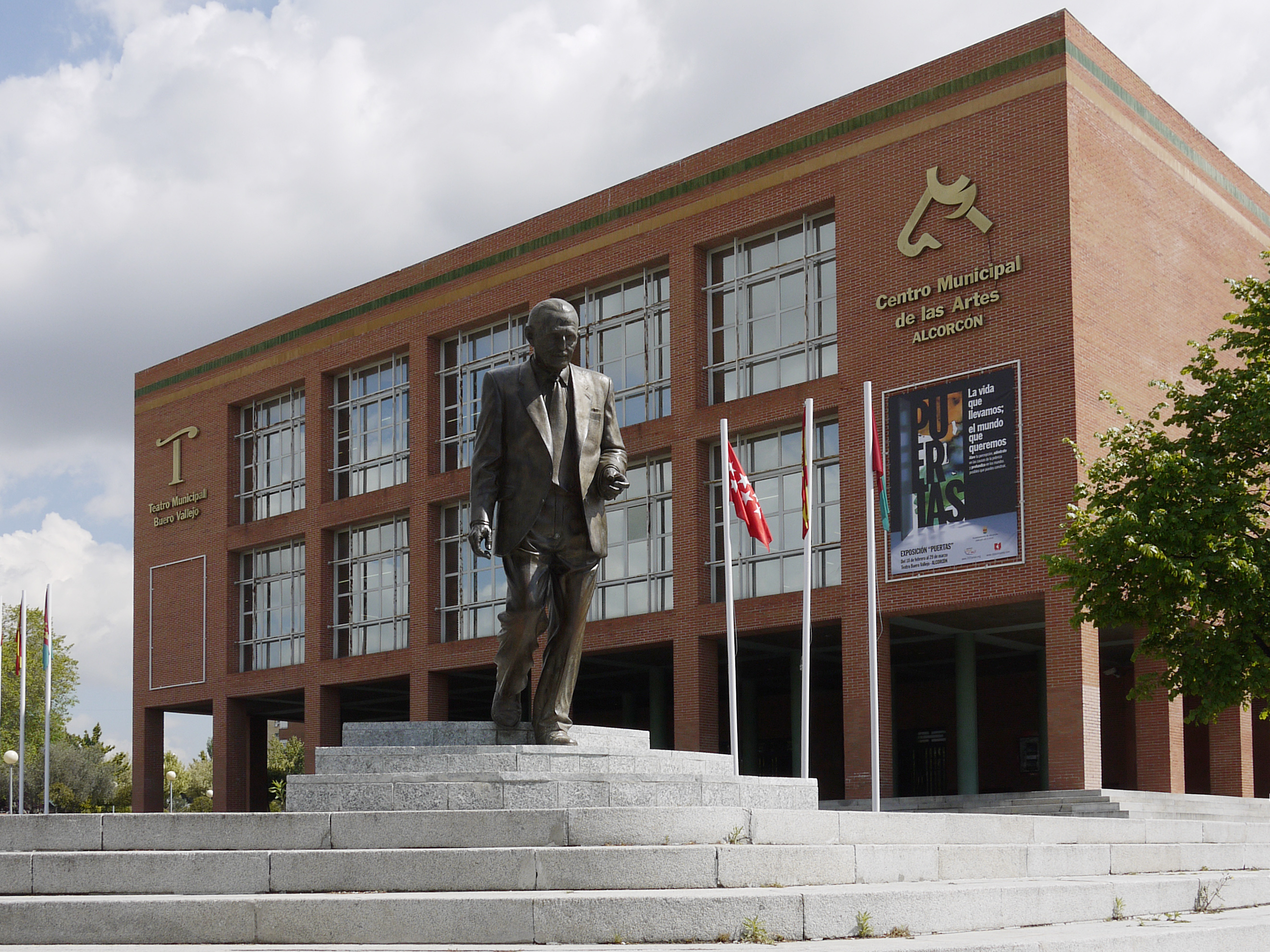 Centro Municipal de las Artes, Alcorcón, Spain.